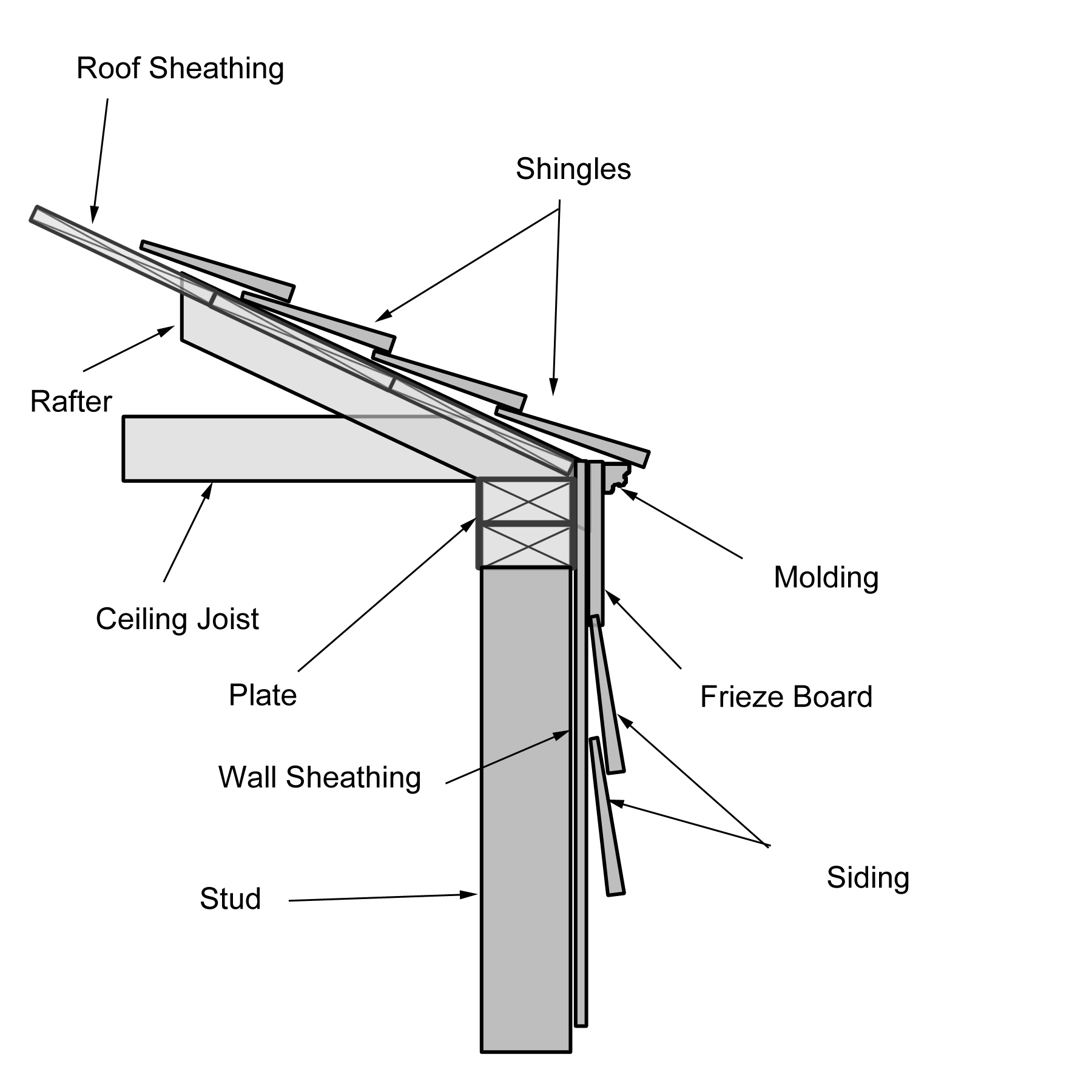 An architectural diagram of a close cornice, one which does not project from the wall of the building, showing the wall sheathing, plate, stud, rafter, ceiling joist, shingles, roof sheathing, frieze board, siding, and moulding.